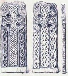 image